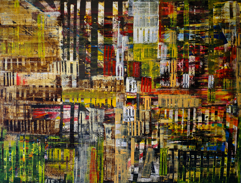 Painting Acrilique on canvas